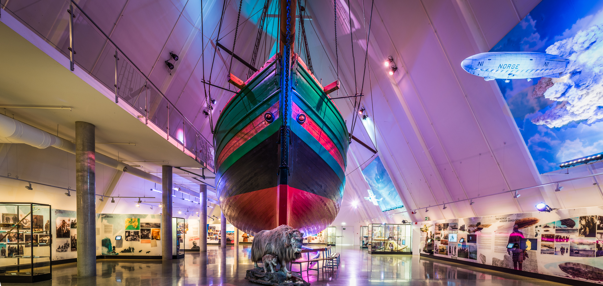 The polar ship Gjøa after the 2017 restoration. From the Gjøa building of the Fram Museum in Oslo, Norway.